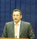 Undersecretary of State for Economic and Business Affairs Reuben Jeffery III and Prime Minister Lado Gurgenidze hold a press conference at U.S. Embassy Tbilisi. August 25-27